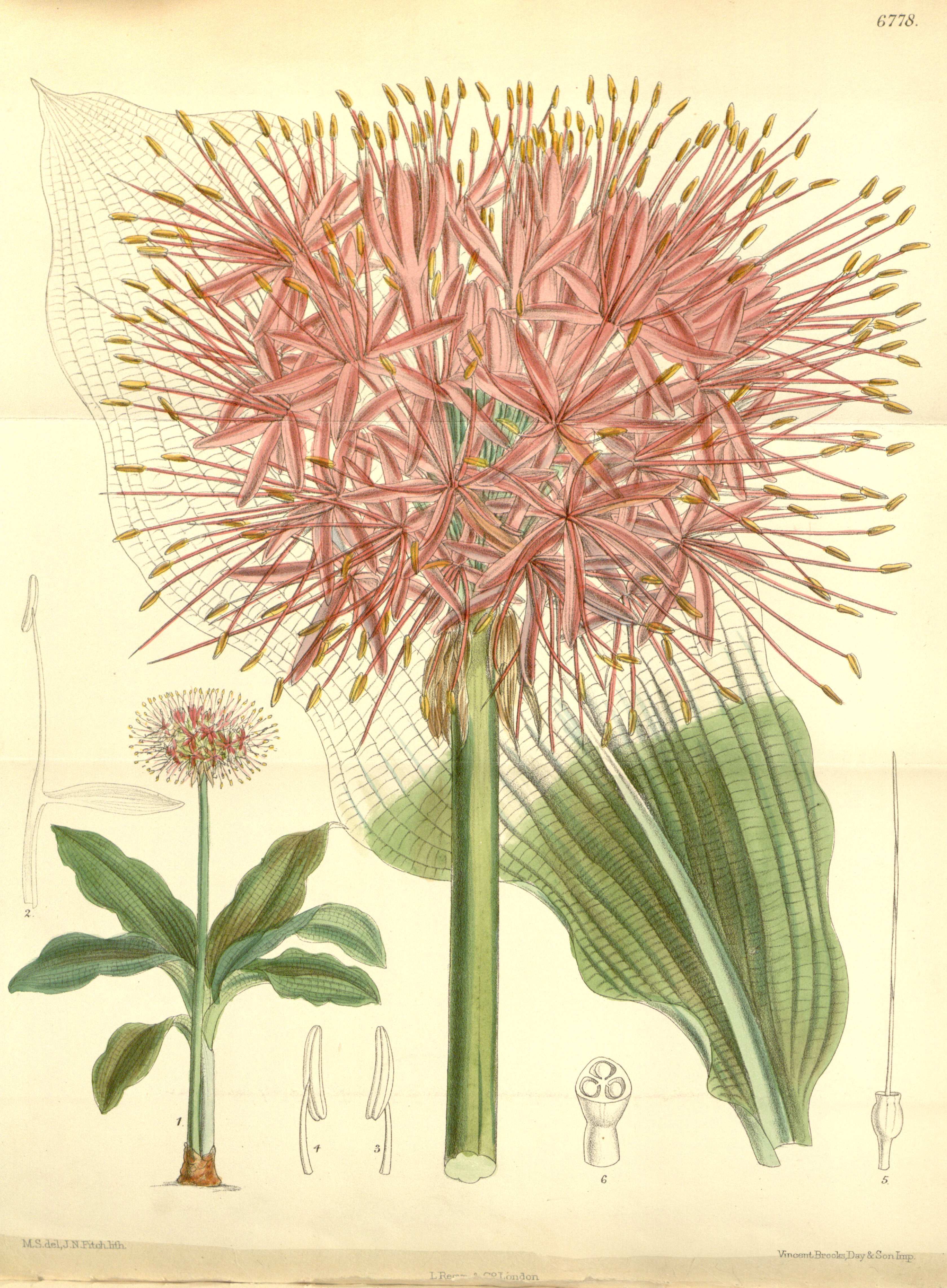 Scadoxus multiflorus subsp. katherinae